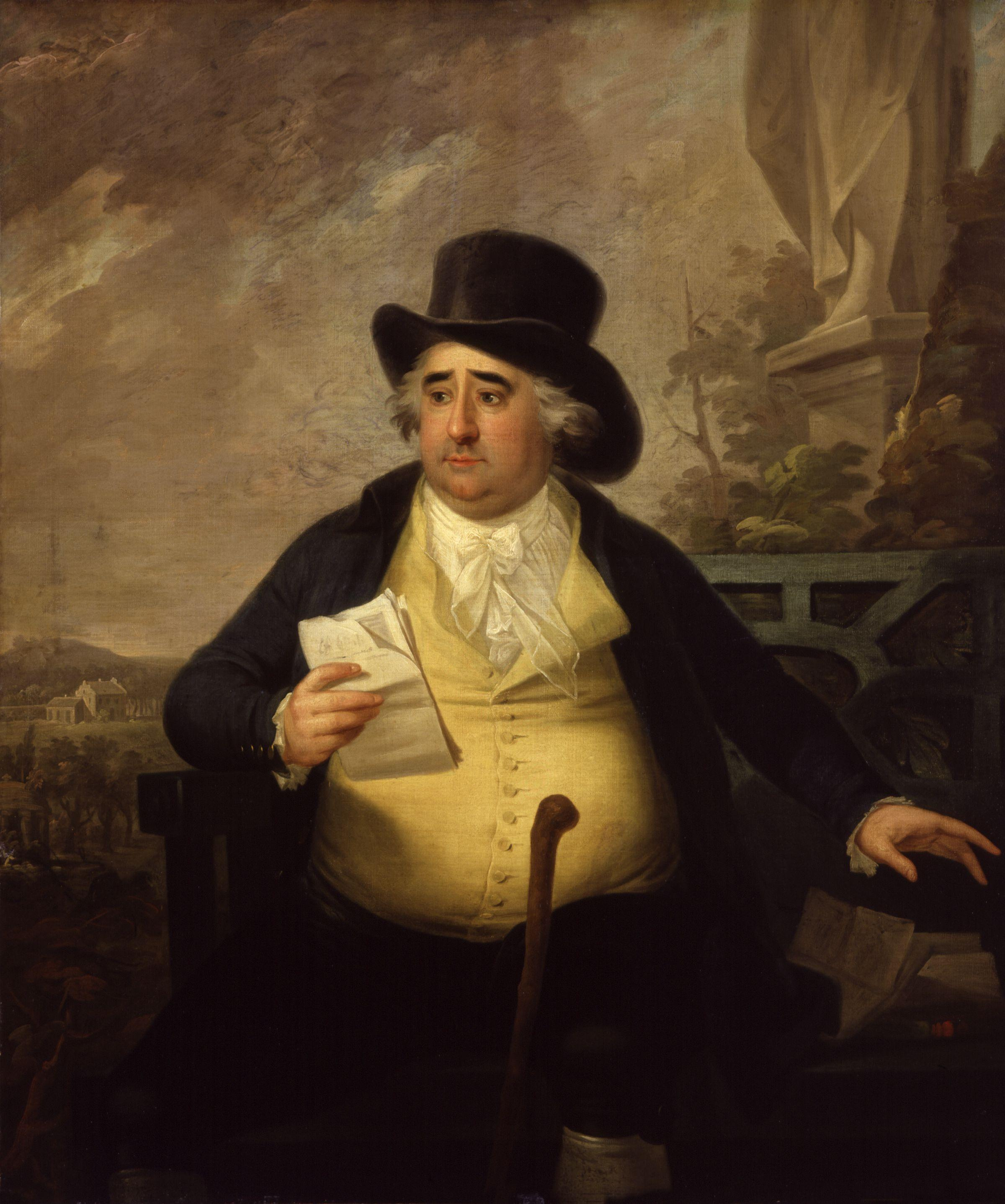 Portrait of Charles James Fox (1749-1806)